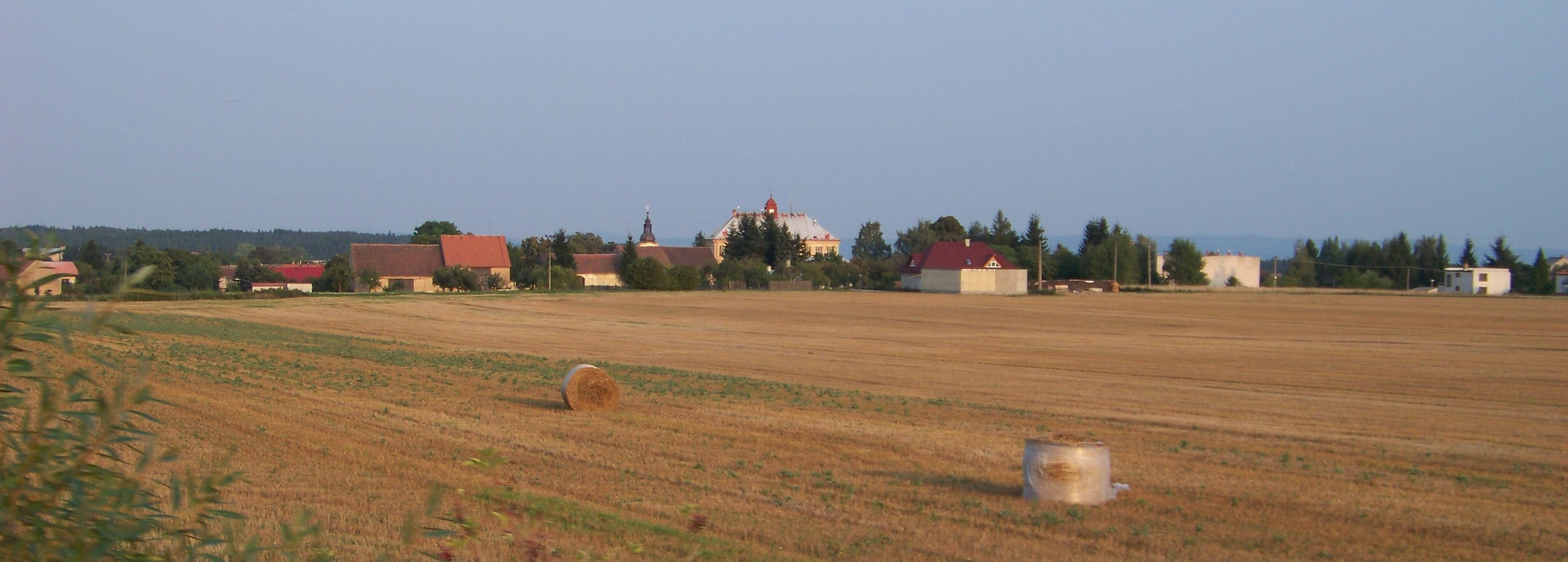 Čistá, Rakovník District, Central Bohemian Region, the Czech Republic. Seen from the train.